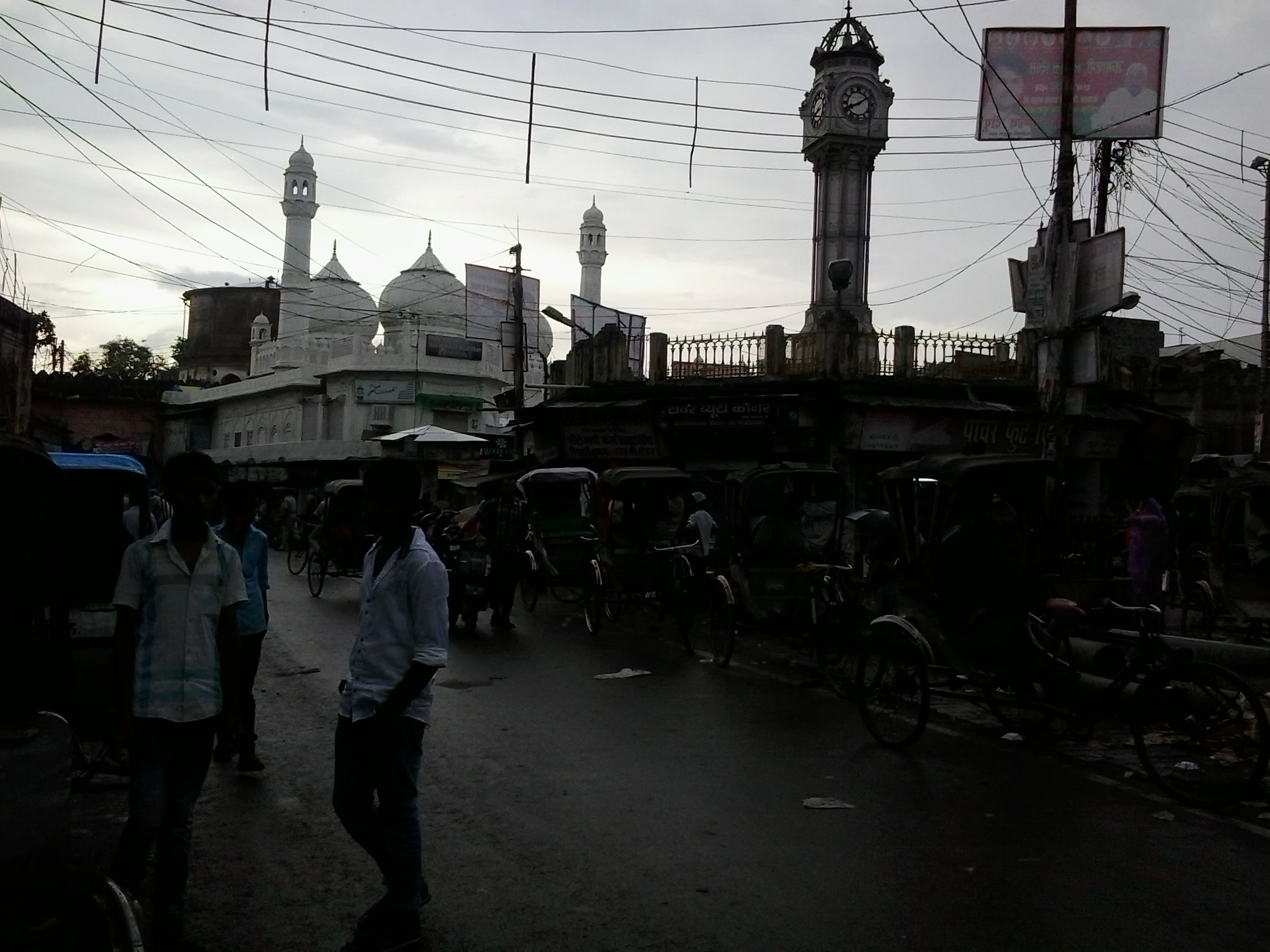 faizabad chowk